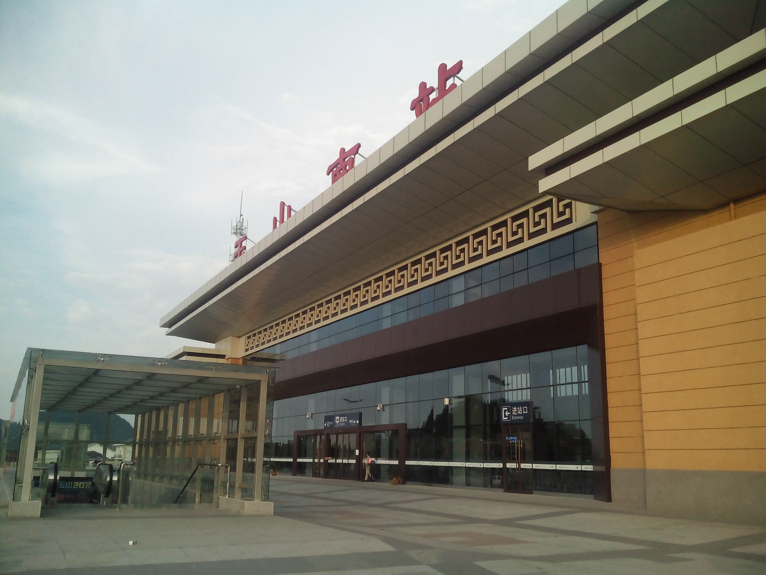 201507 Facade of Yushannan Railway Station